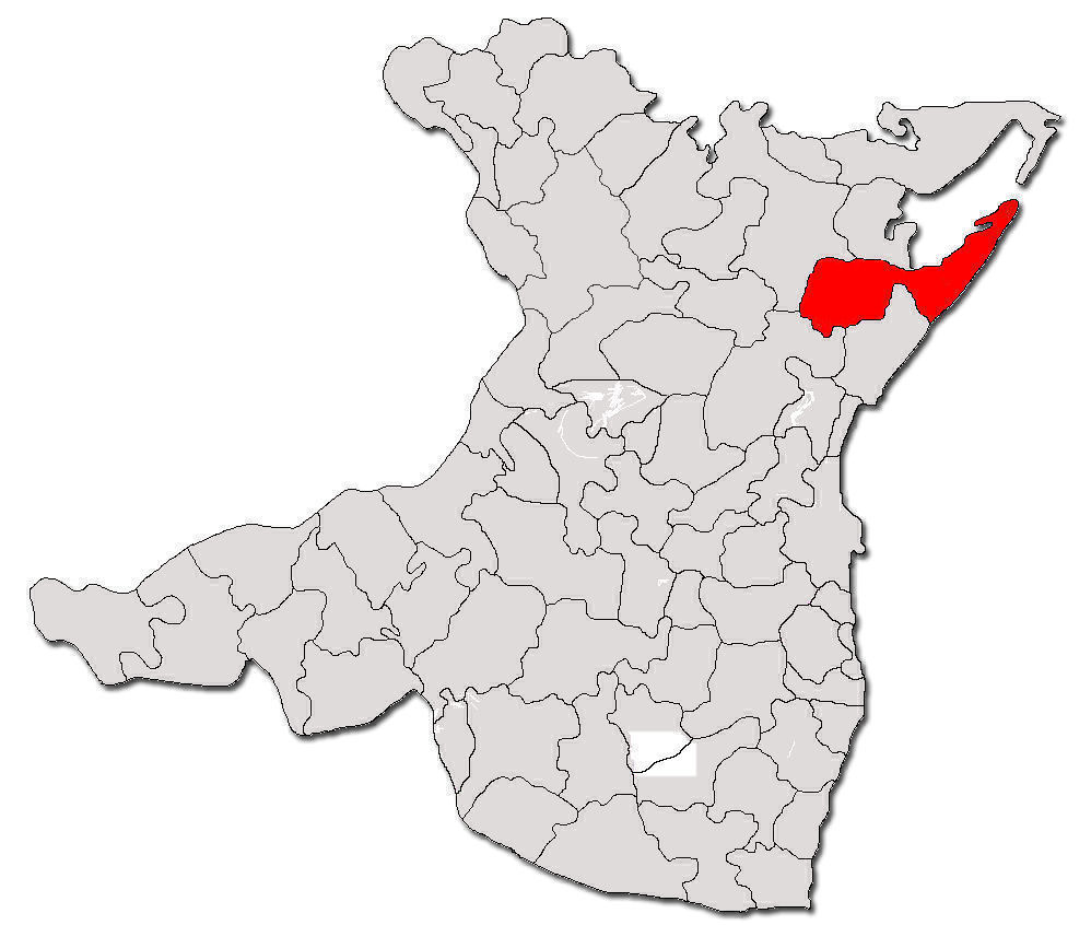 Countour map of Sacele commune